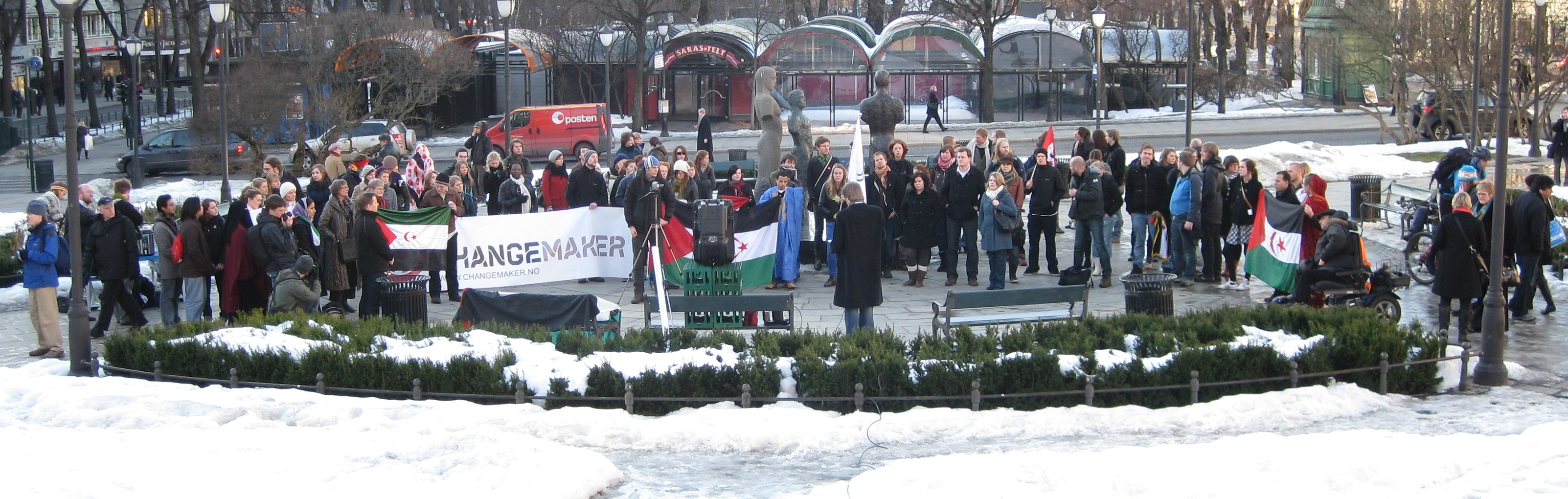 Demonstration in support of Rabab Amidane, the loriet of The Student Peace Price for 2009, outside the Norwegian parliment.